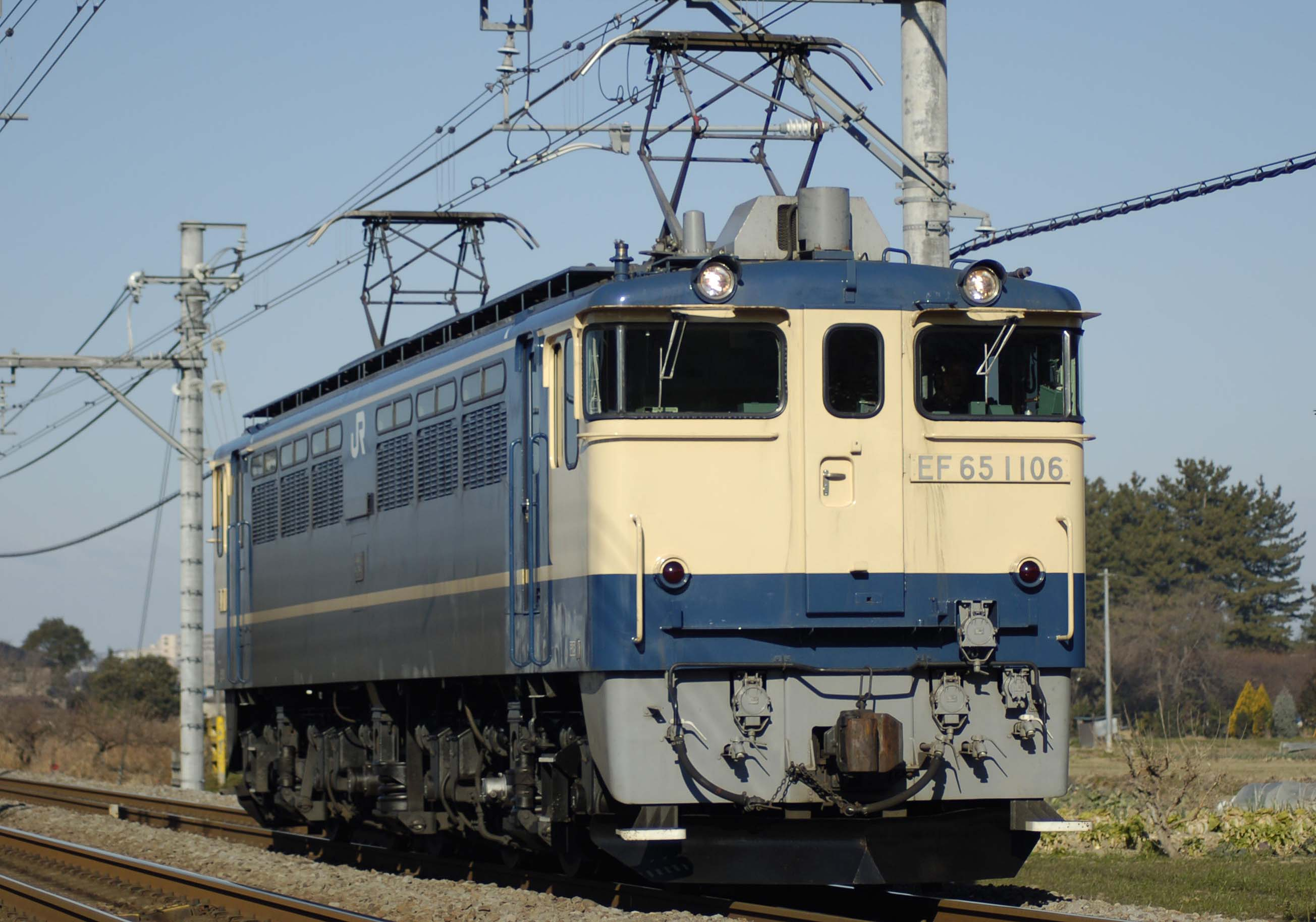 JR Freight EF65 1106 JR東日本田端運転所のEF65PF型1106号機。